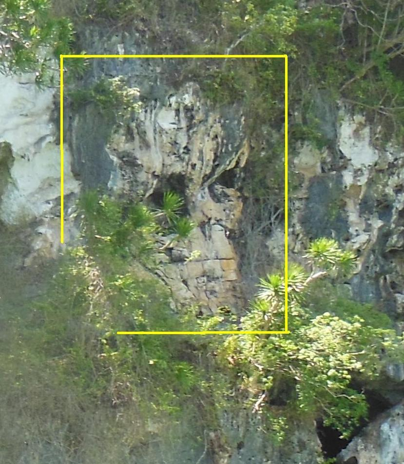 Detail of skull sculpture above Tabon Cave in Palawan the Philippines. It was found by tourist Philip Maise in May 2014. Tabon Caves Skull Sculpture - Palawan Island, Philippines Tagalog: Detalye ng Bungo iskultura sa itaas tabon Caves sa Palawan sa Pilipinas. Ito ay natagpuan sa pamamagitan ng tourist Philip Maise Mayo 2014.